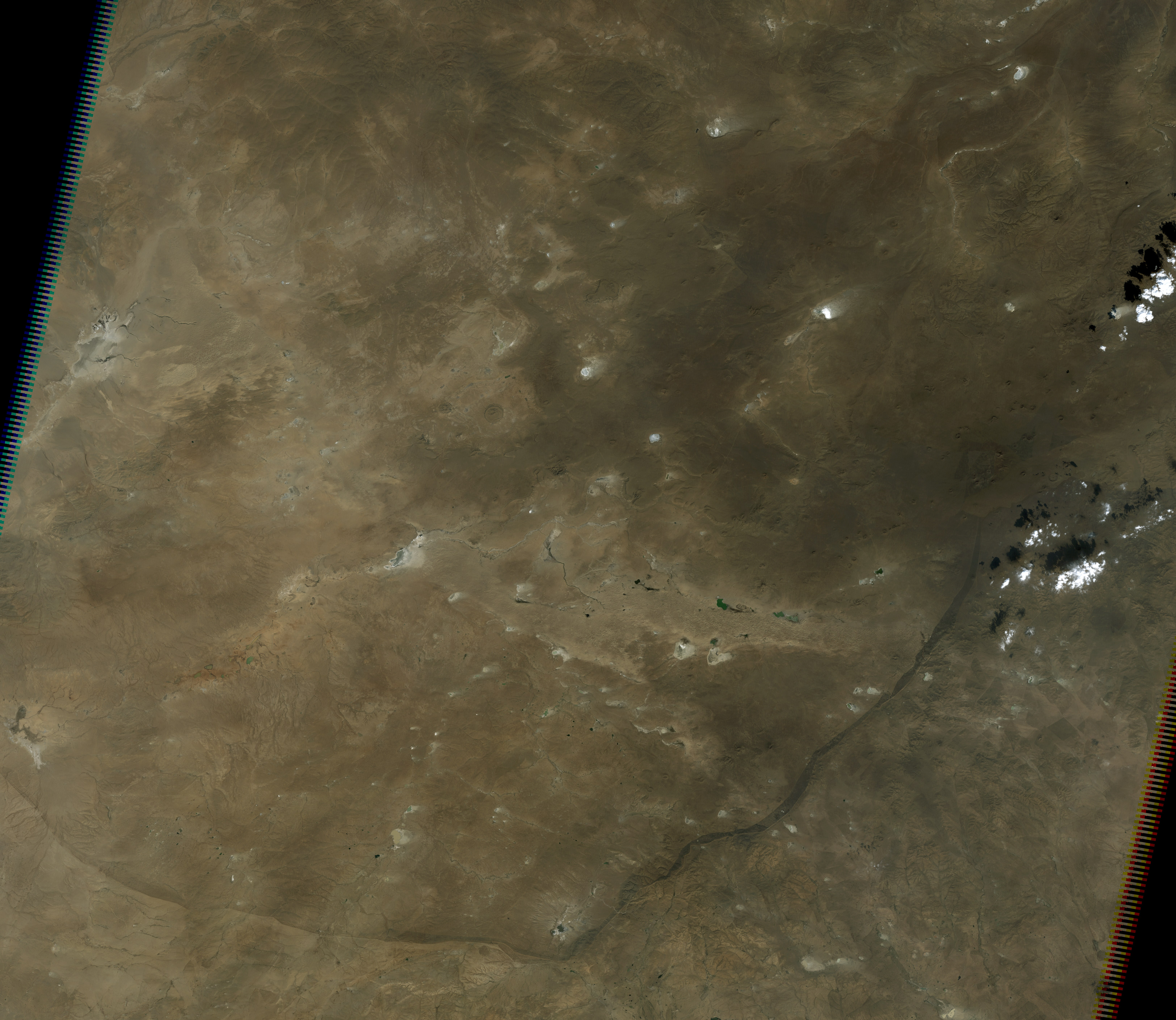 Dariganga plateau, Mongolia, satellite image, LandSat-5, 2006-10-05, near natural colors, resolution 30 m